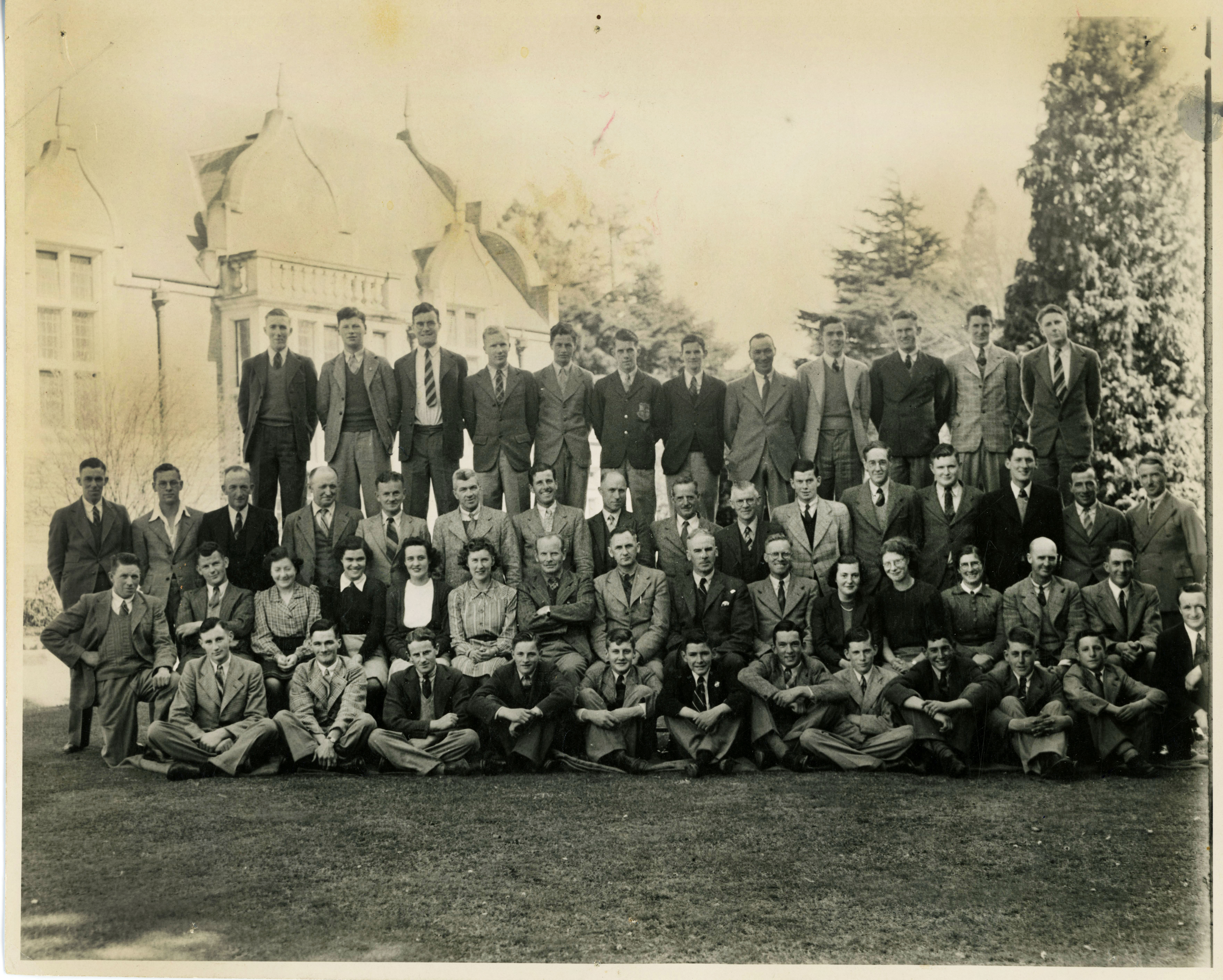 Class photo of staff and students, 1942 Back row: J. L. Trevathan, J. P. Malcolm, G. Paton, T. Sewell, P. Palmer, K. Woodward, N. Hood, C. Brown, M. G. Hollard, D. G. Wilson, P. R. Aitken, R. S. Macarthur. 2nd row: J. S. Chesney (Mechanic), T. Tracy (Stockman), F. A. Loffhagen (Teamster and Saddler), J. Russell (Gardner), J. W. McLean, Dr I. W. Weston, C. P. Tebb (Farm Manager), L. M. Morrison, A. K. McLay (Farm Overseer), R. J. Caldwell (Blacksmith), J. B. Douglas, J. M. Wardell (Certificates in Woolclassing 1943), A.G. Logan, J. M. Hoy, J. Irving, H. C. Baines (Pig Husbandryman) 3rd row: V. Hannah (Stud Shepherd), M. R. Edmonds, Miss Nancy Shankland, Miss Eve D. Farmer, A. W. McKay, Miss E. G. Thorpe, J. W. Calder, R. H. Bevin, Prof. E. R. Hudson, A. H. Flay, J. O'Brien, Miss B. Williamson (Technical Assistant), Miss M. P. Bartrum (Analyst), P. G. Stevens, D. C. Oliver (Students' Executive). Front row: A. W. France, B. Halliwell, A. I. Grant, D. Davies, R. Thaine, C. M. Blick, R. M. Snow, L. G. Forbes, L. S. Fougere, B. E. Wilkinson, W. R. Scandrett, R. Moir.